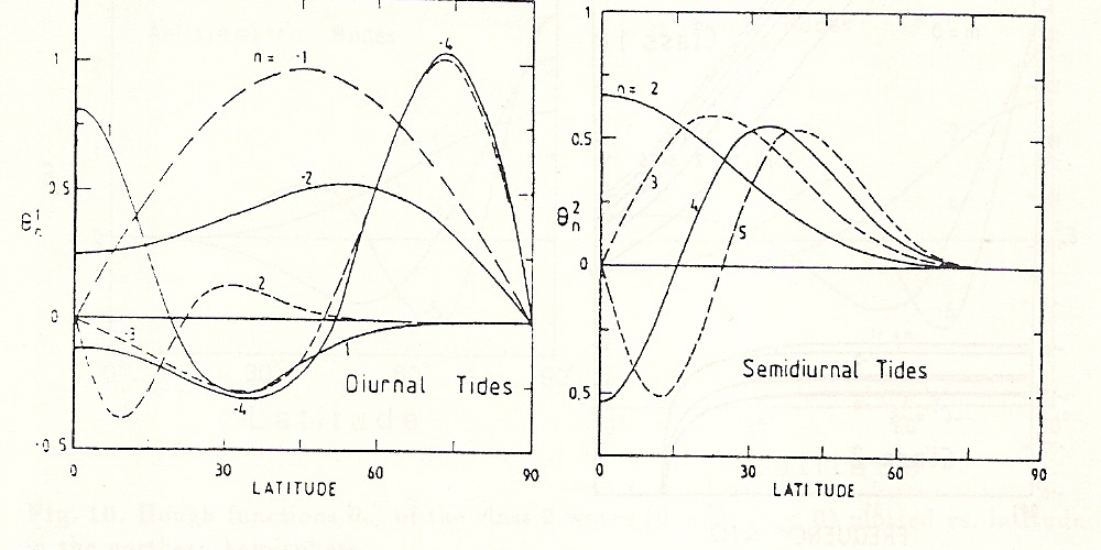 Meridionalstructure